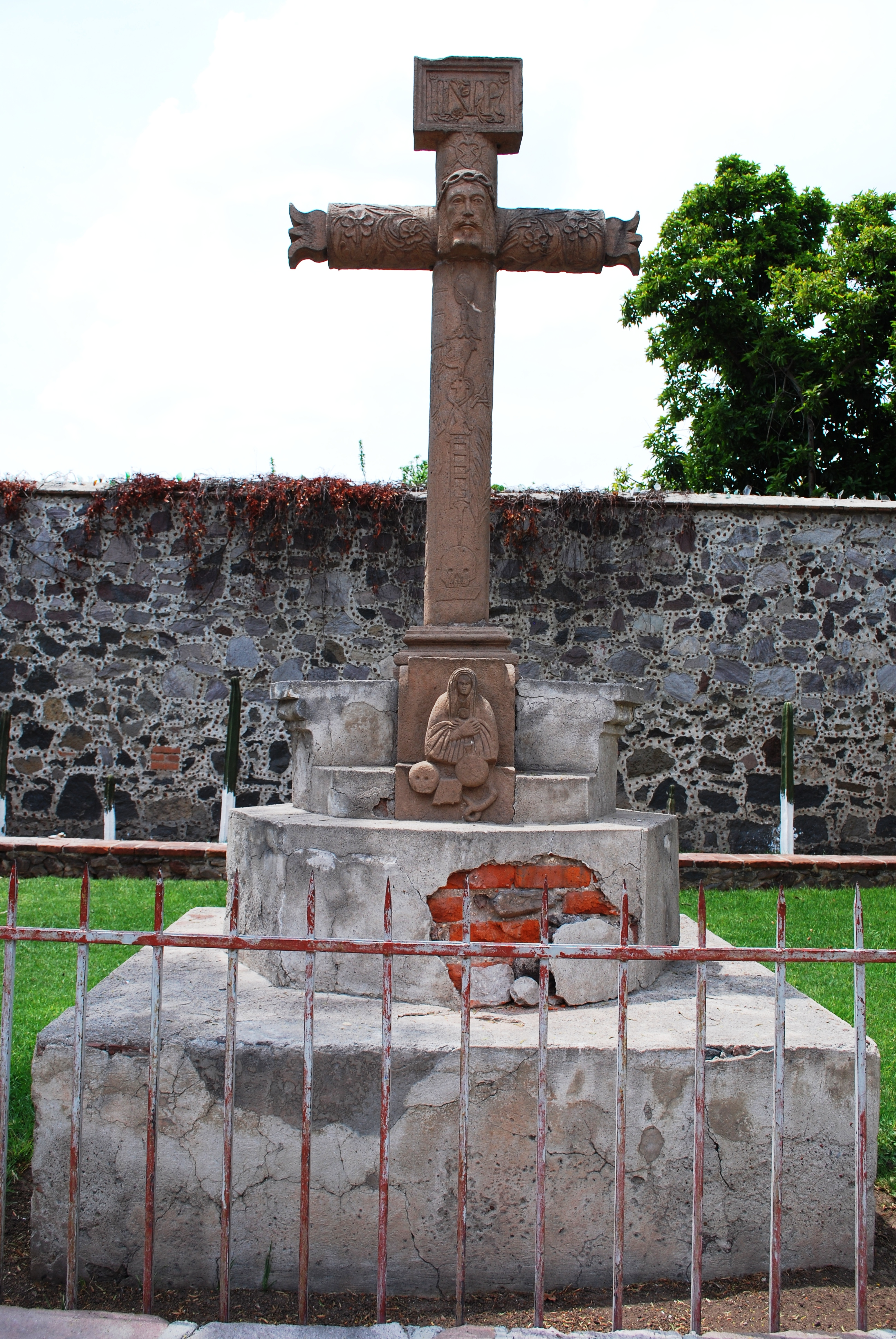 View of the 16th century Tequiqui atrium cross of the former monastery of Acolman, Mexico State